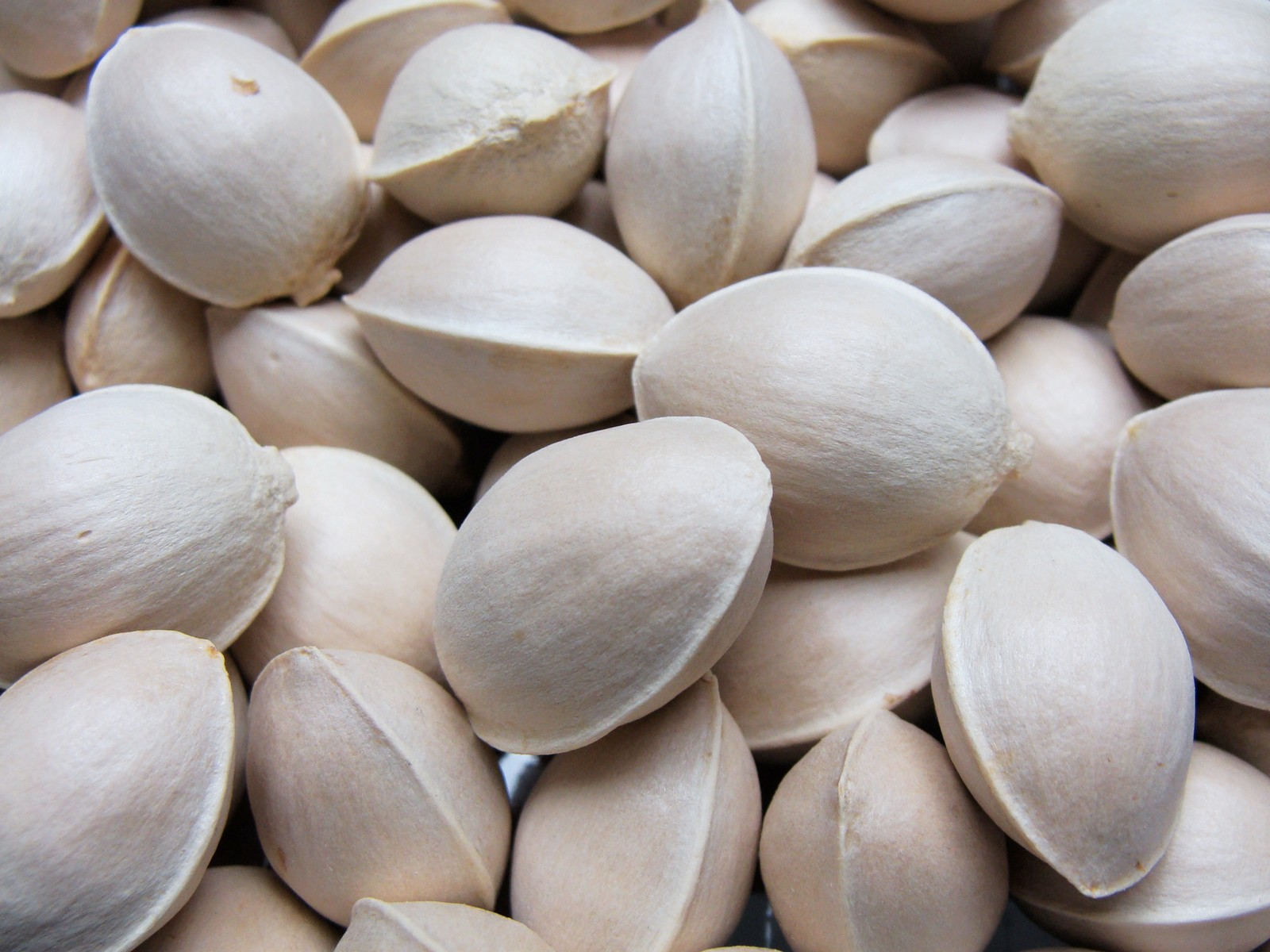 Ginkgo_Seed (Japan)